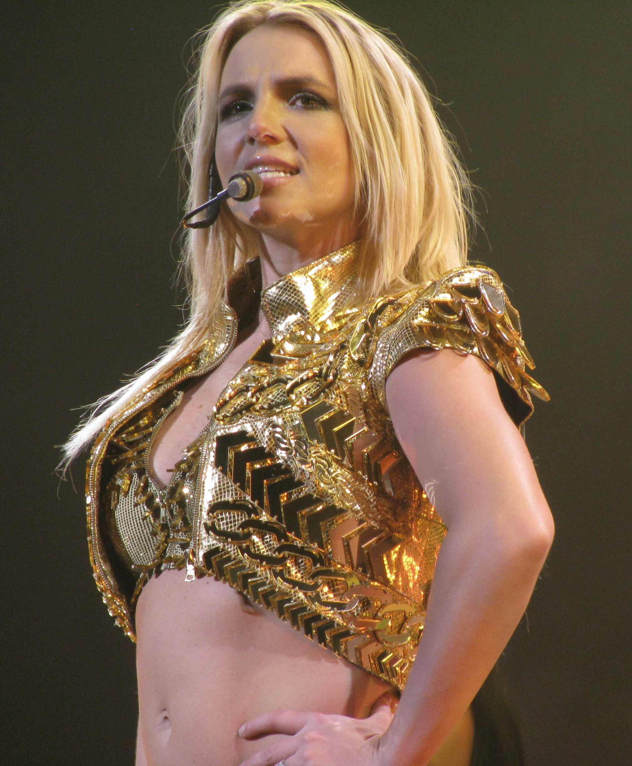 Britney Spears live in Toronto in August 15, 2011.